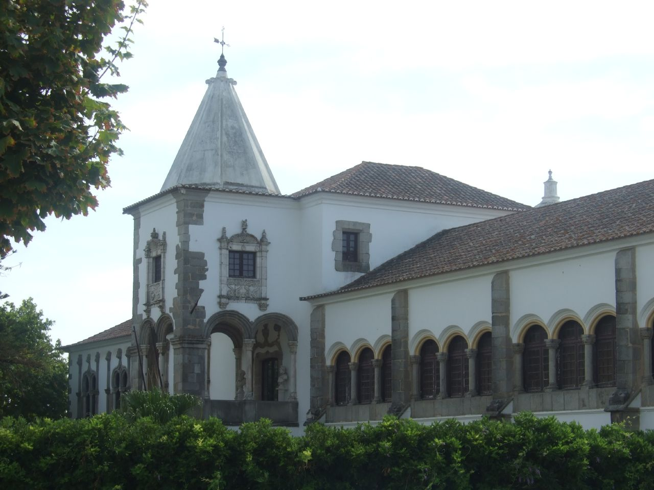 Royal Palace of Évora.